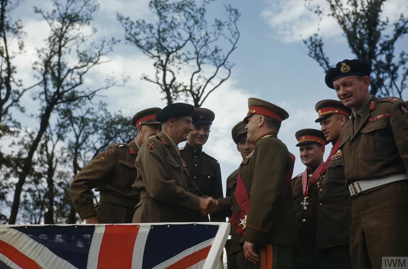 Field Marshal Montgomery Decorates Russian Generals at the Brandenburg Gate in Berlin, Germany, 12 July 1945 The Deputy Supreme Commander in Chief of the Red Army, Marshal G Zhukov shakes hands with the Commander of the 21st Army Group, Field Marshal Sir Bernard Montgomery on the saluting base at the Brandenburg Gate, Berlin after a ceremony in which Field Marshal Montgomery had invested Marshal Zhukov as a Knight Grand Cross of the Order of the Bath and bestowed other decorations on General K Rokossovsky and Marshal V Sokolovsky of the Red Army who are seen on the right of Marshal Zhukov. The Commander of the British 7th Armoured Division, Major General L O Lyne is on the left. The 7th Armoured Division formed a Guard of Honour at the ceremony and afterwards marched past the saluting base.